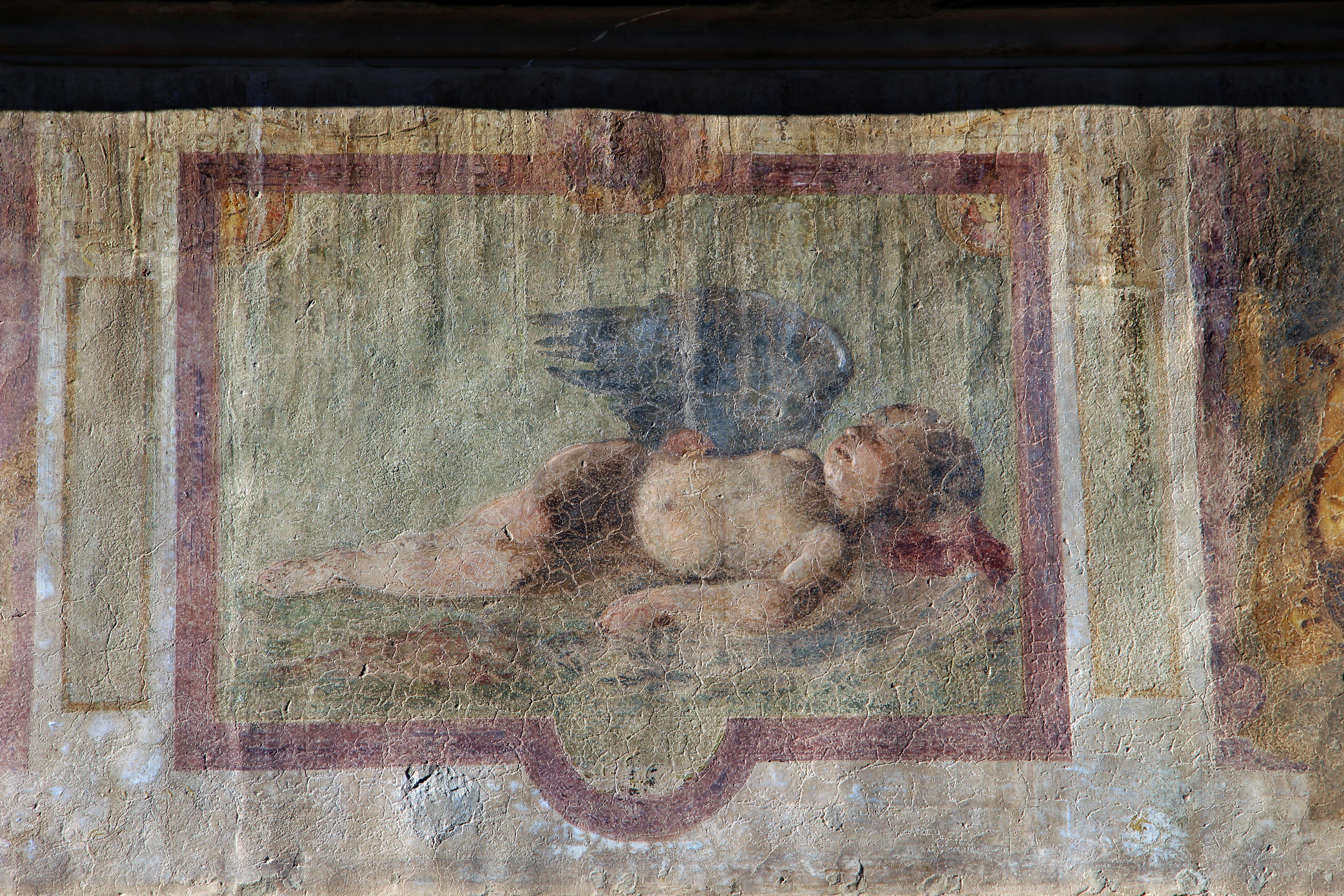 Palazzo dell'Antella - Façade frescos